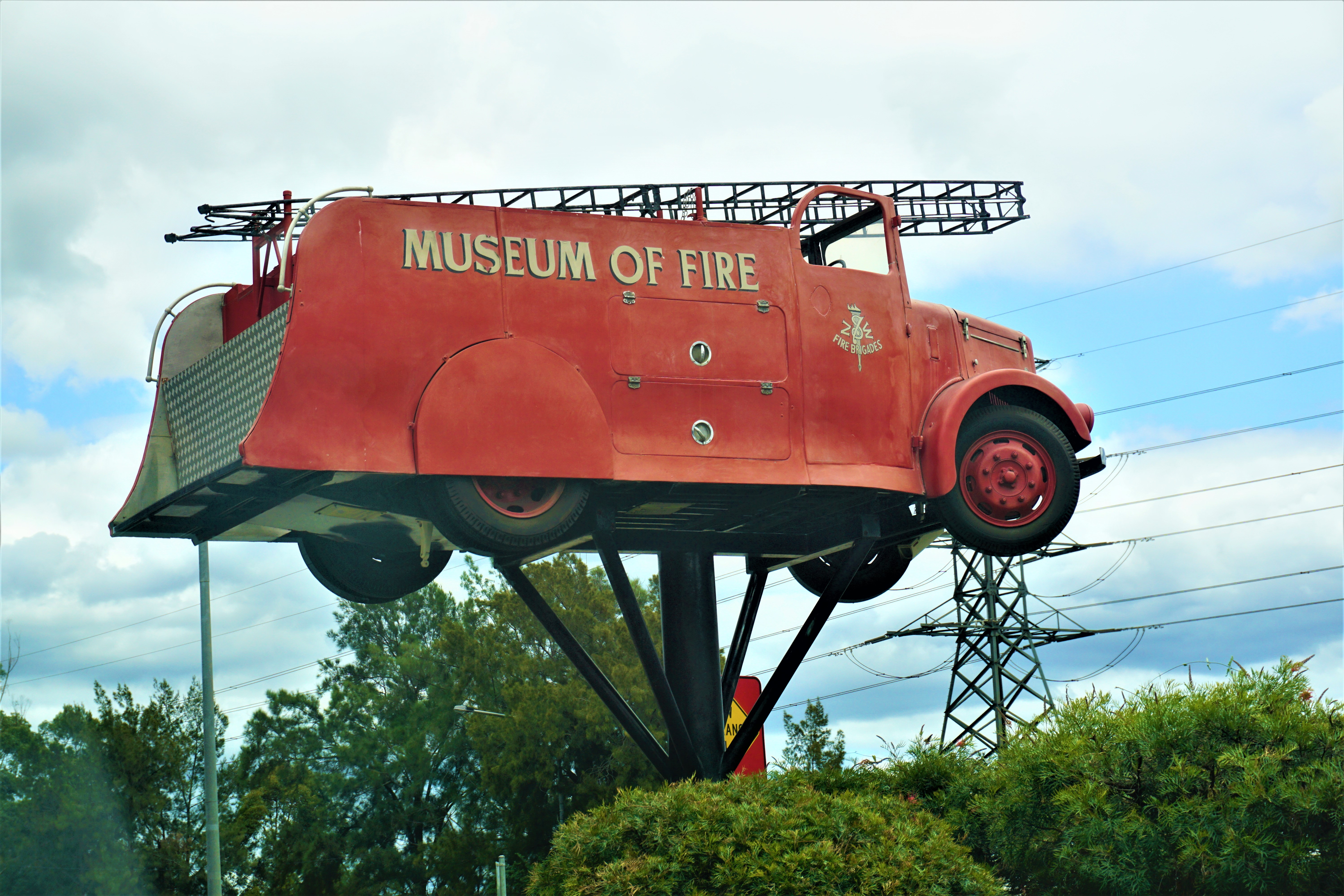 Museum of Fire - Joy of Museums- for details